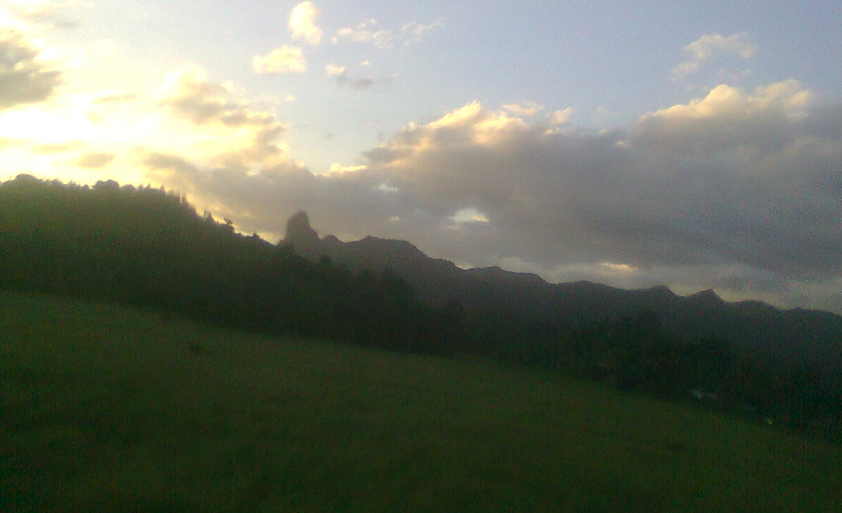 Joske's Thumb, taken from Queen's Road, near Montfort Boys Town, Outside Suva, Fiji.